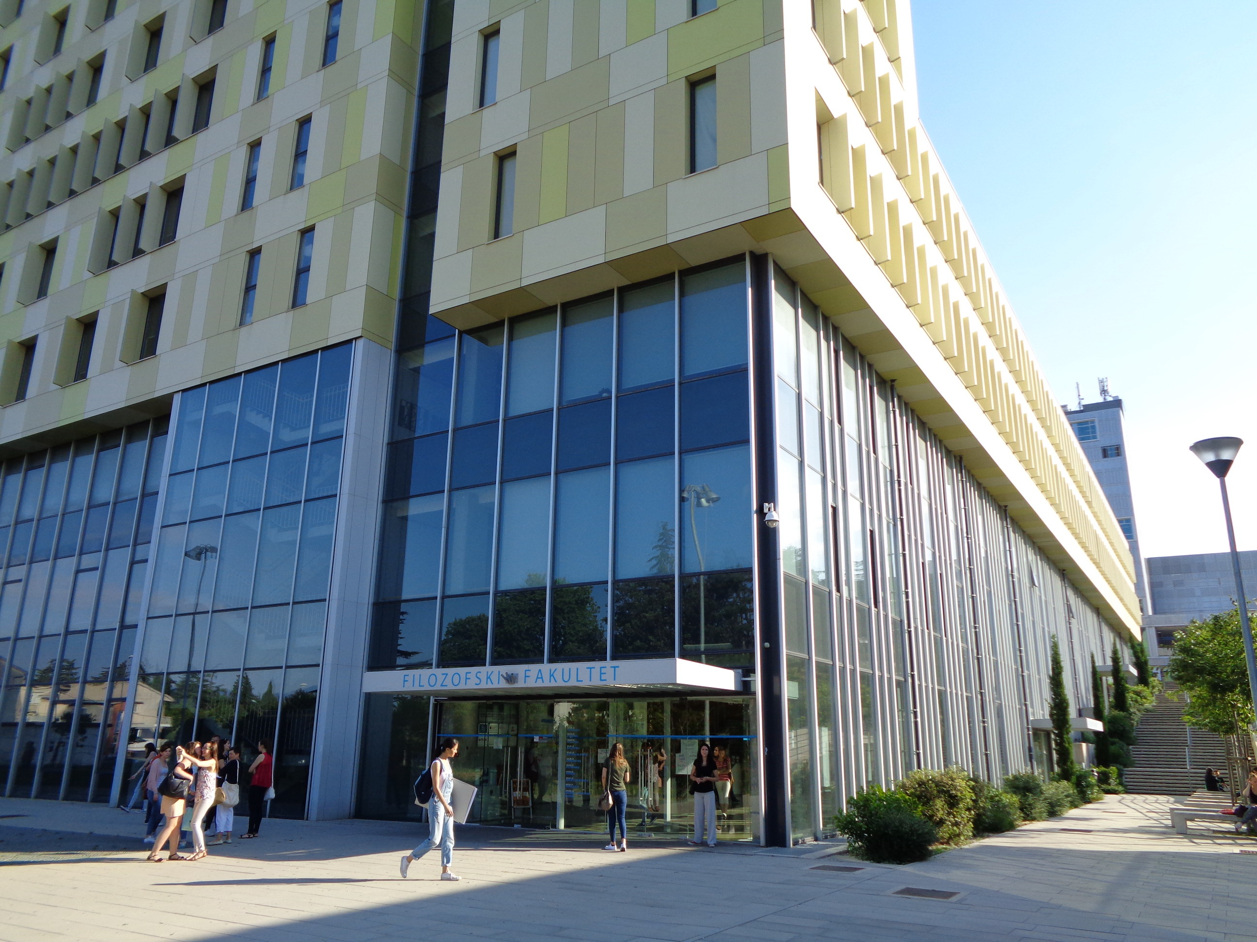 Faculty of Philosophy, Rijeka, Croatia - entrance